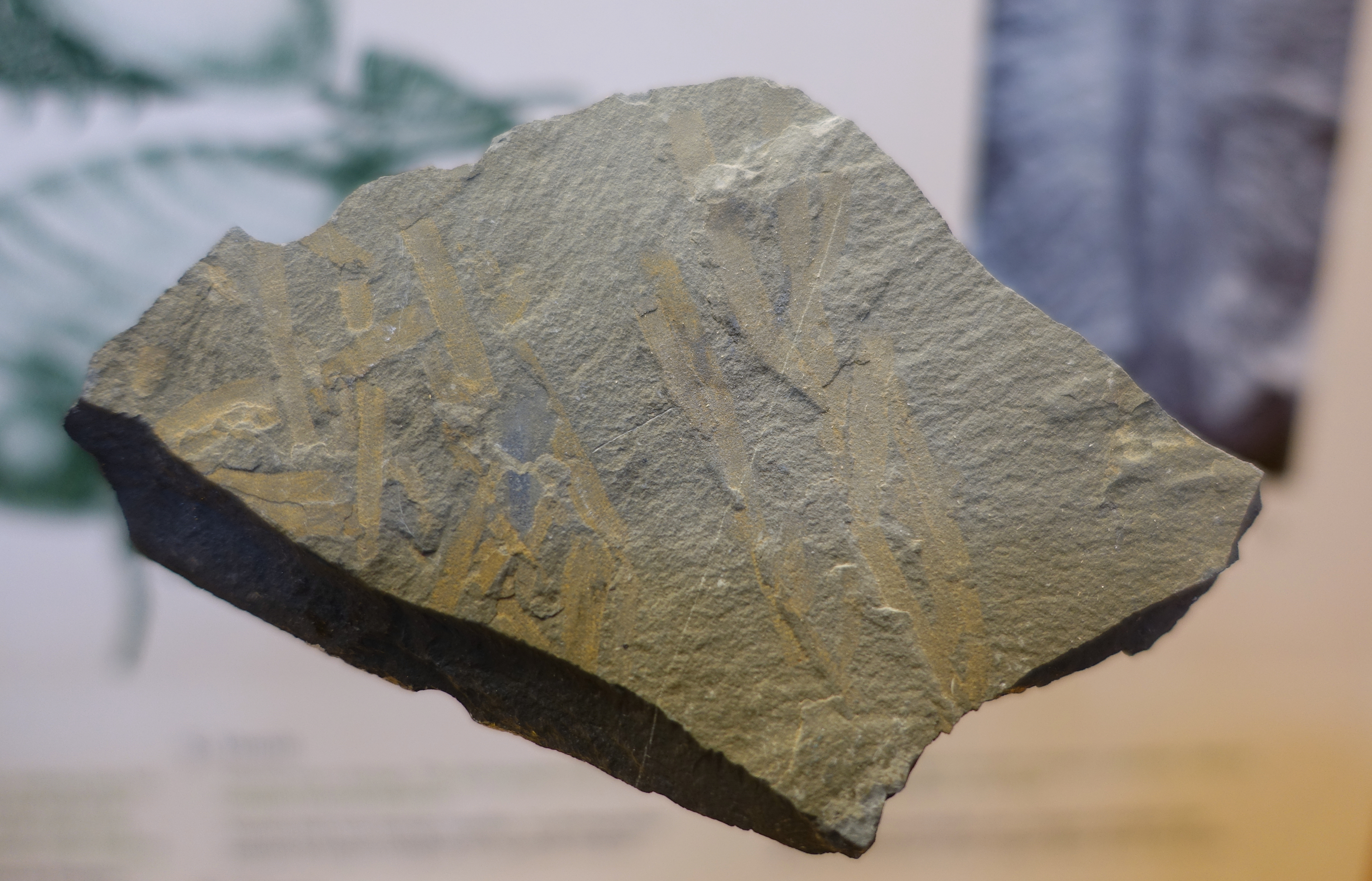 Exhibit in the Redpath Museum, McGill University - Montreal, Quebec, Canada.